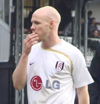 Andrew Johnson, Simon Davies at Craven Cottage